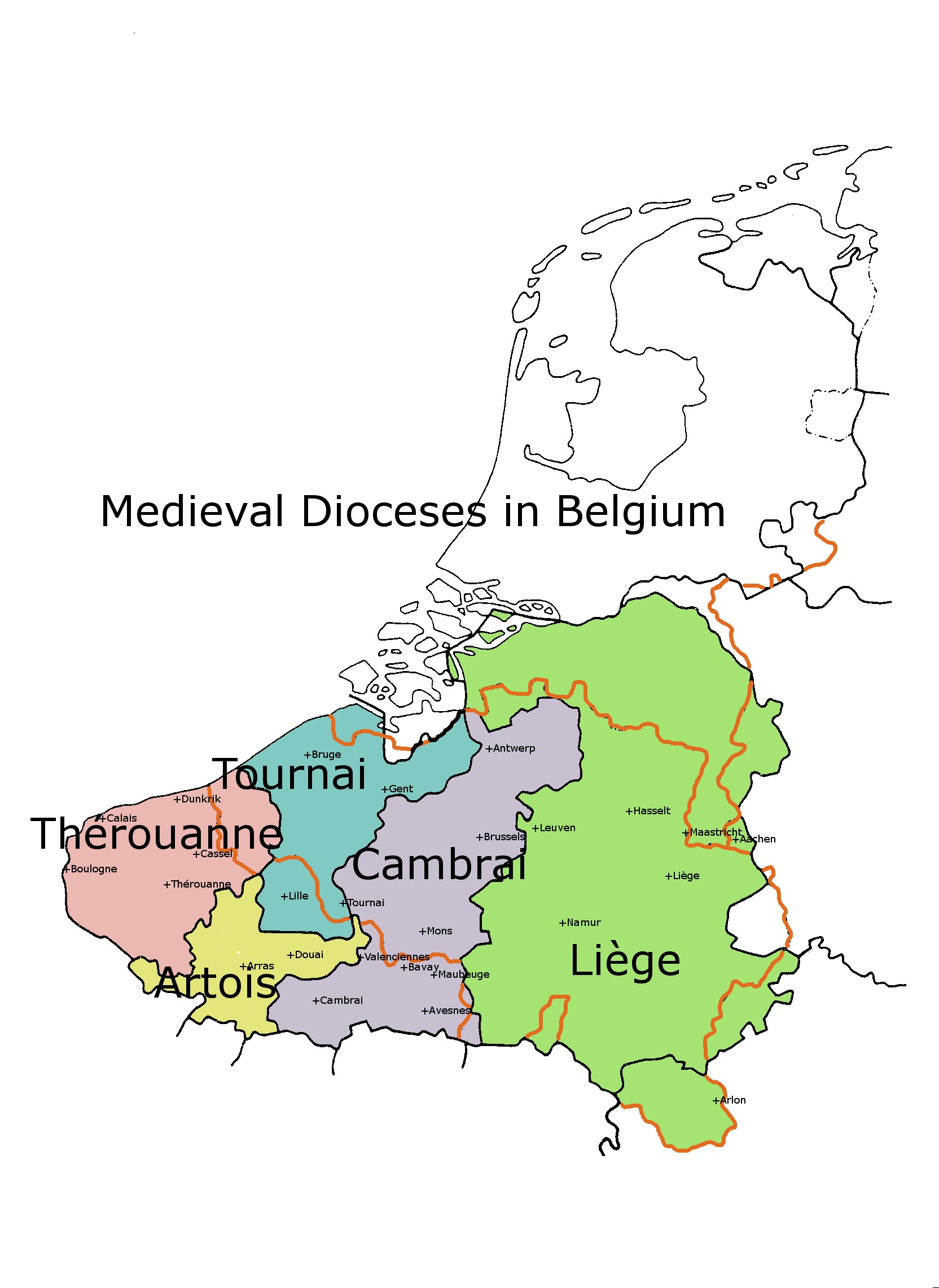 This is a map showing the old Catholic dioceses, which were to some extent based upon ancient Roman and pre-Roman territories.